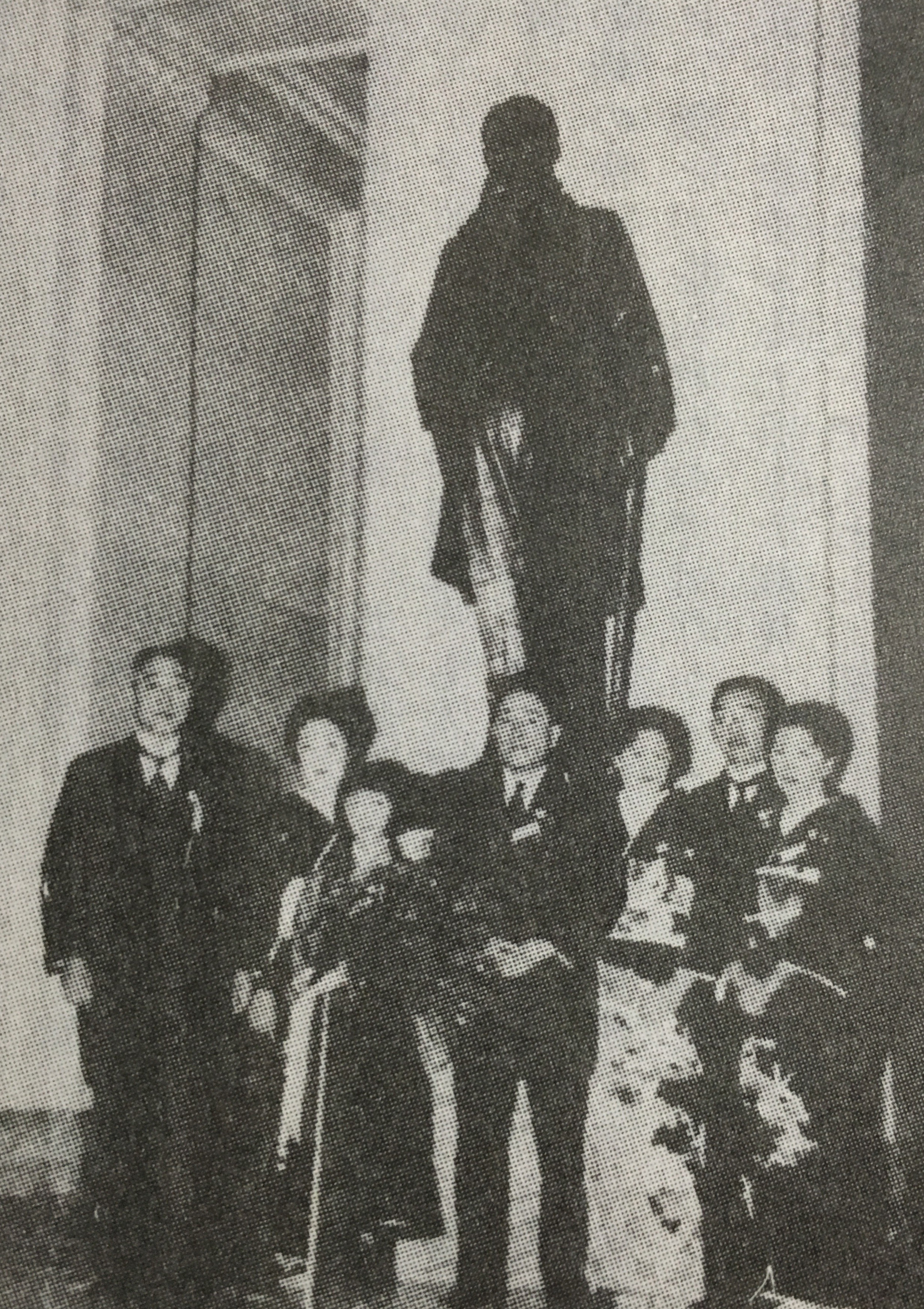 Bronze statue of ITAGAKI TAISUKE in the Japanese Diet Building (2, 11, 1938). from the left side: ASANO TAIJIRO, ASANO CHIYOKO, ASANO FUSAKO, ITAGAKI Shokan MASATSURA, ITAGAKI AKIKO, ITAGAKI MORIMASA, ITAGAKI MOMOKO and Statue of ITAGAKI TAISUKE.